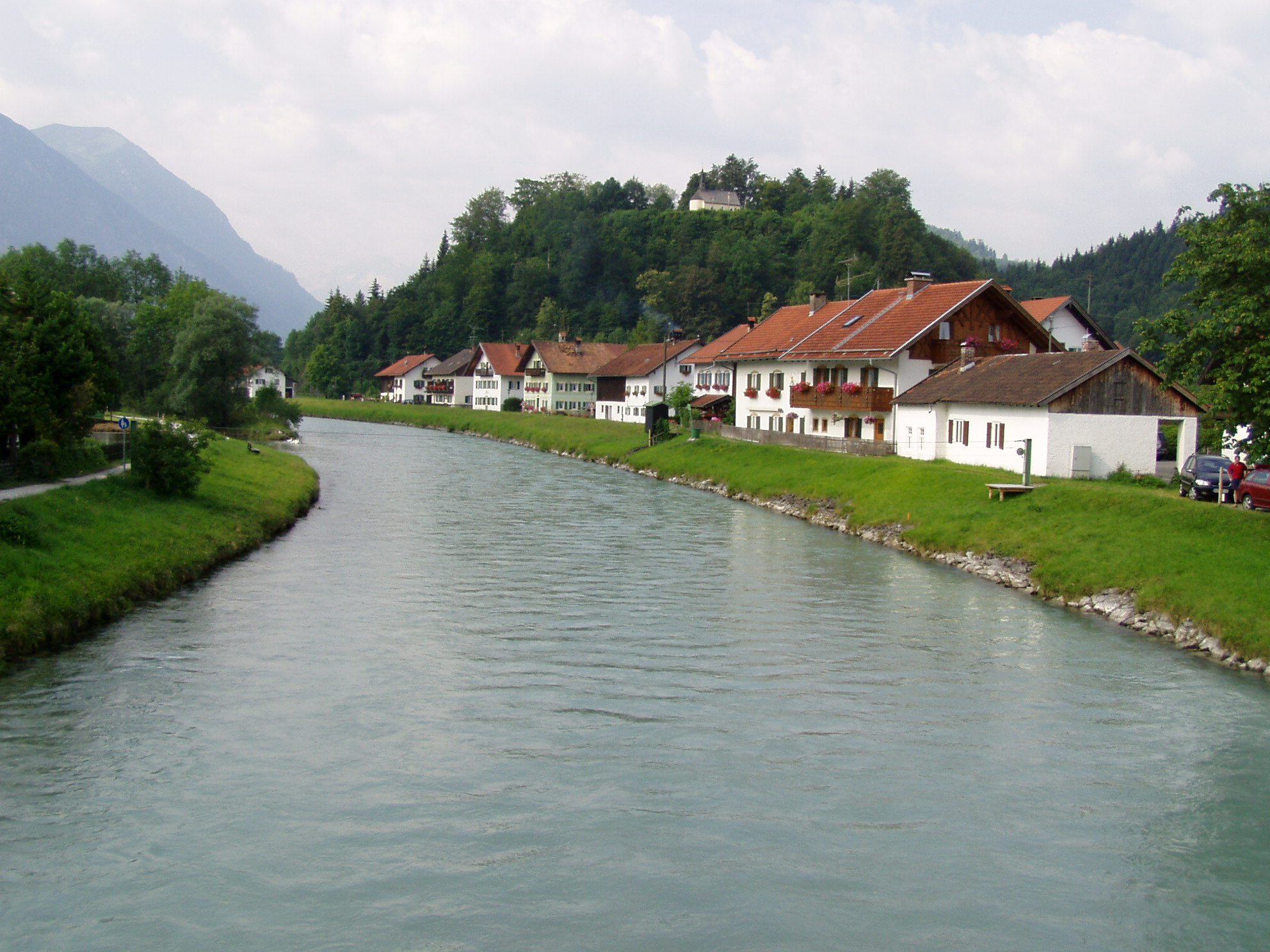 Loisach in Eschenlohe